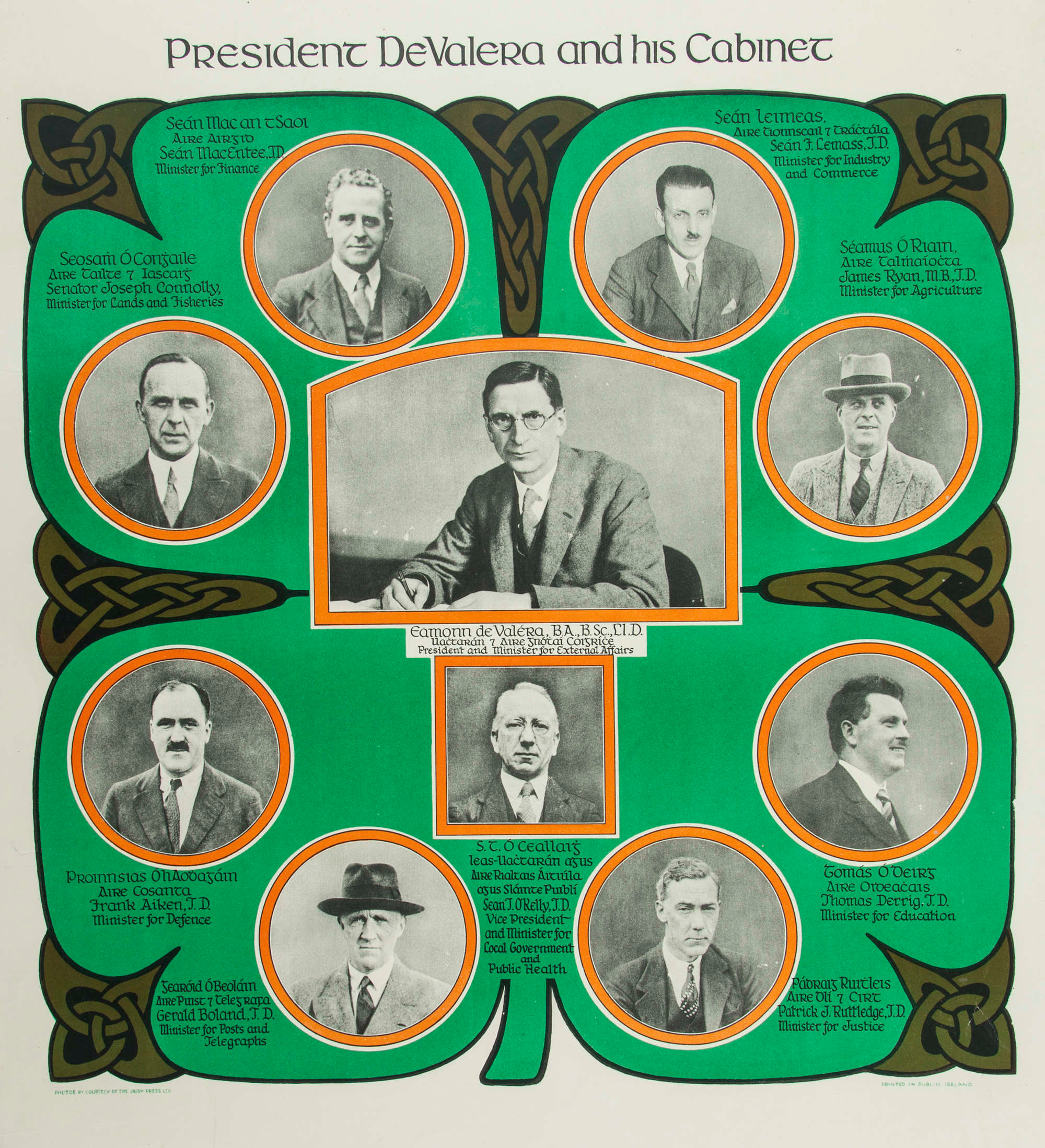 FIANNA FAIL. PRESIDENT DE VALERA AND HIS CABINET. Colour printed poster showing photographic portraits of De Valera and nine members of his cabinet against a shamrock pattern. Dublin printed circa 1932.